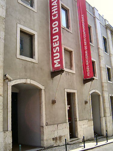 Click here to see where this photo was taken. By courtesy of BeeLoop SL (the Mapware & Mobility Solutions Company).